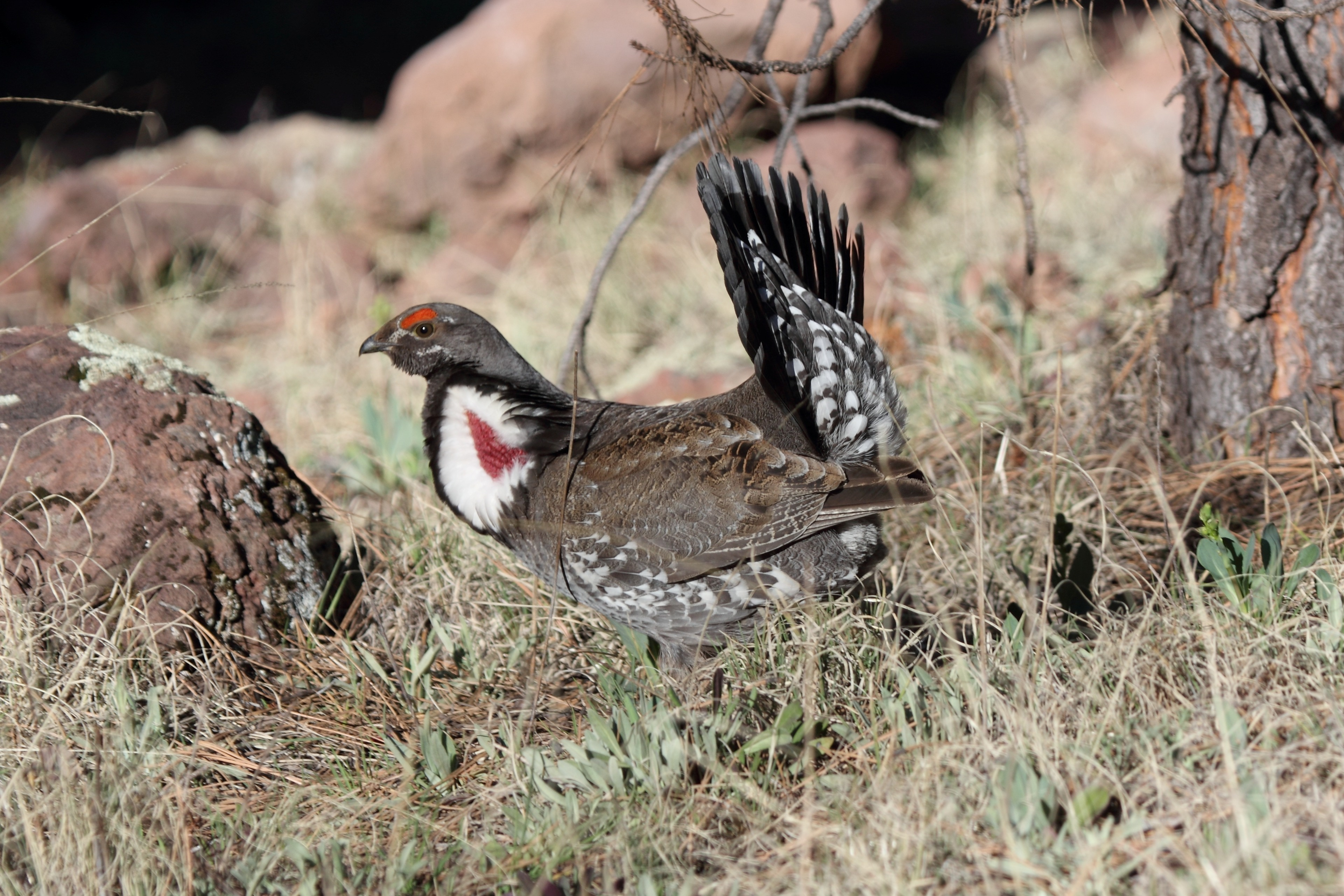 Dusky Grouse (Dendragapus obscurus)